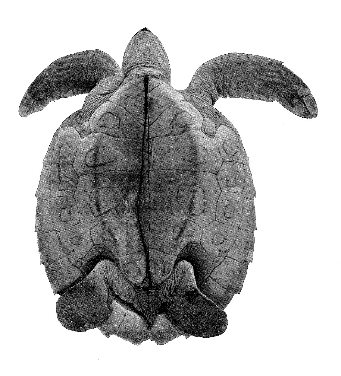 Natator depressus